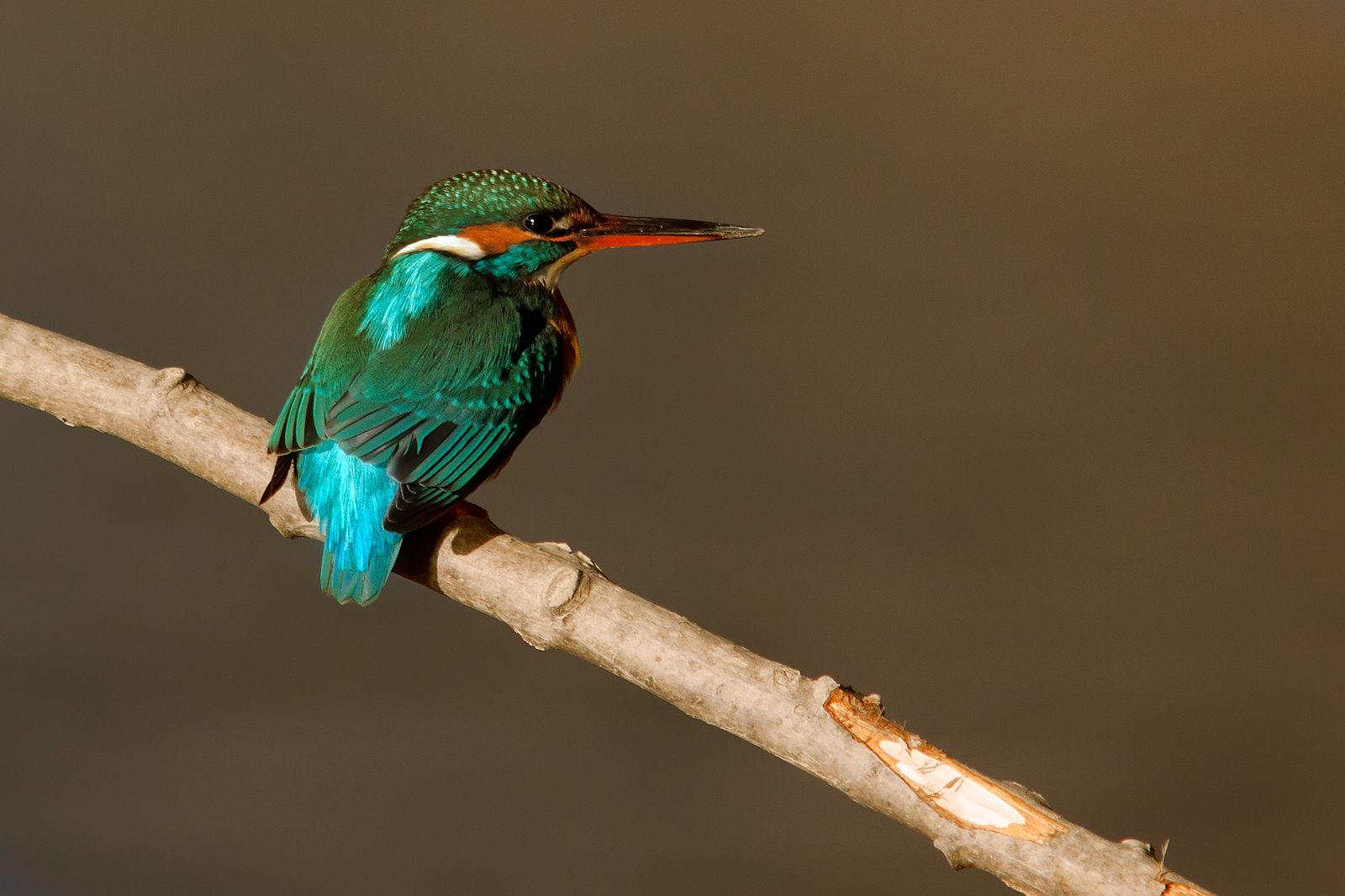 Kingfisher, a natural oasis of Torrile [PR] italy